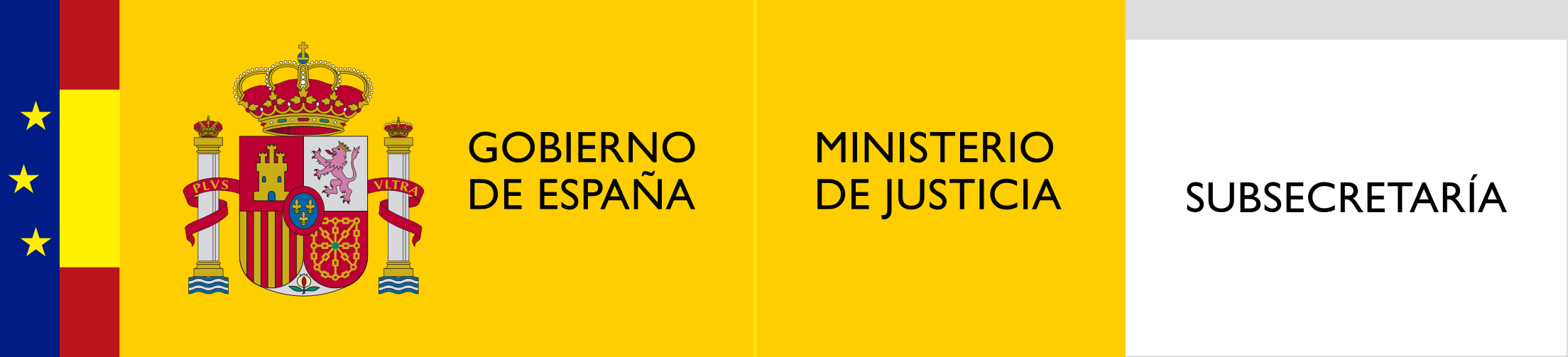 Logo of the Undersecretariat of Justice